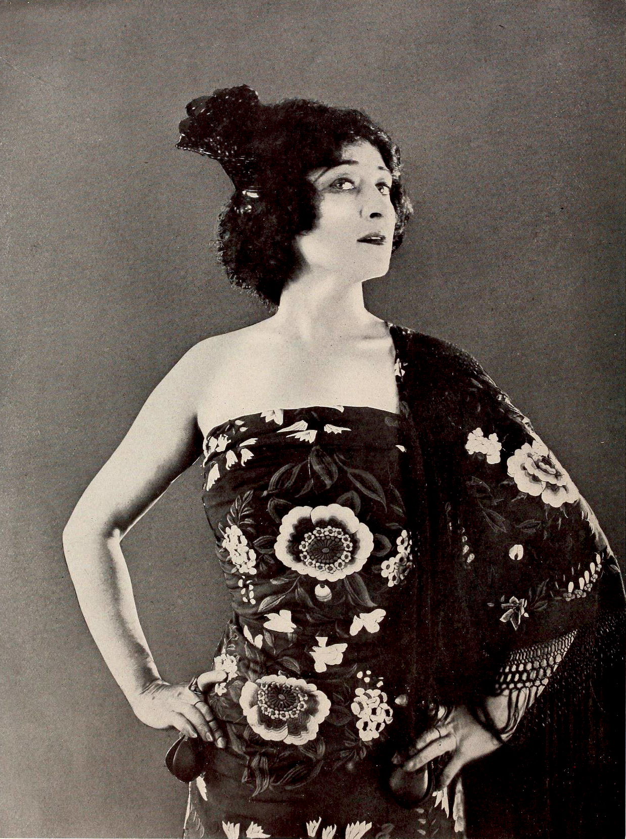 Pauline Frederick as Myra, a Spanish dancer, in The World's Great Snare. The Photo-Play Journal, July 1916